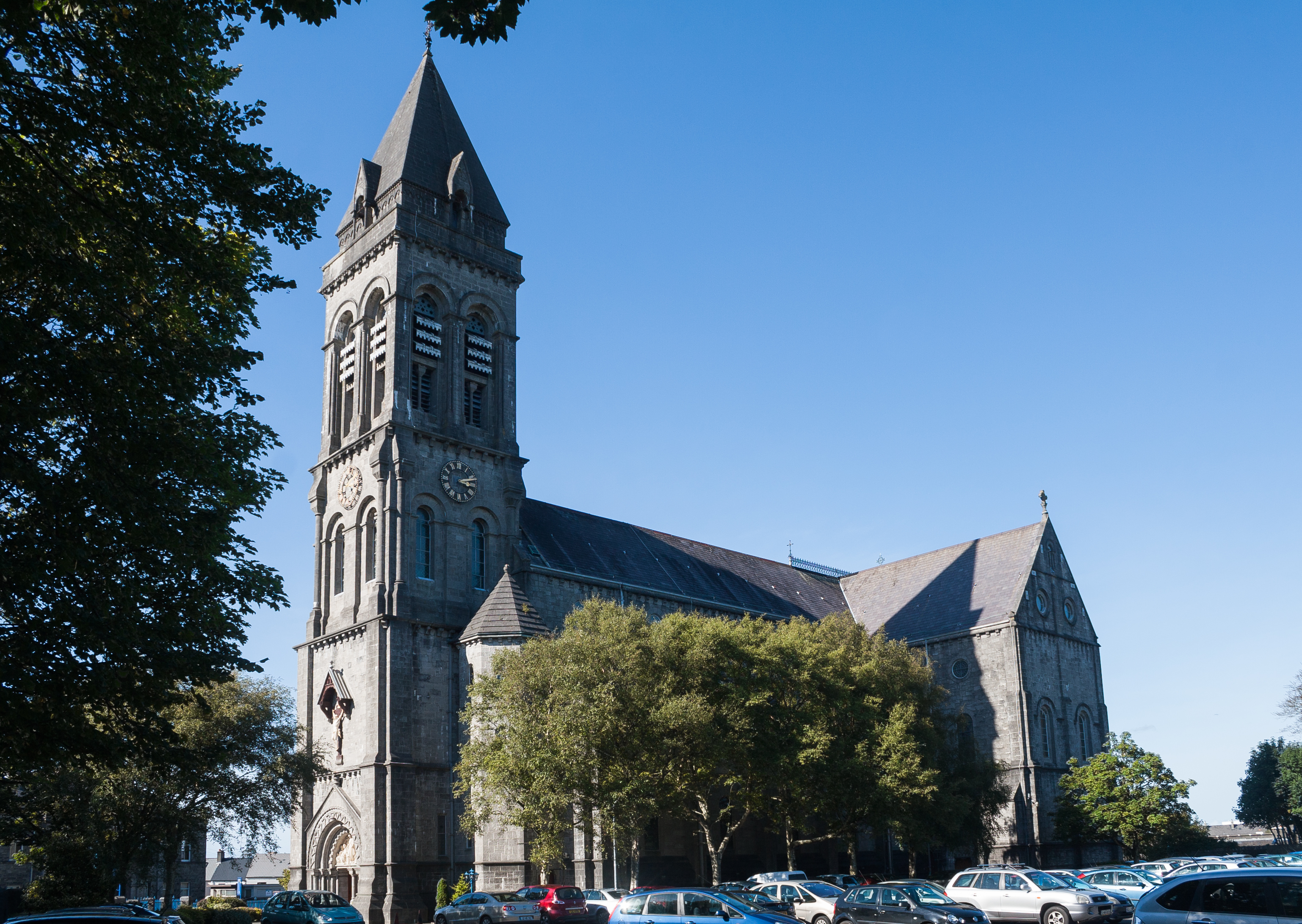 South-east view of the Sligo Cathedral of the Immaculate Conception.